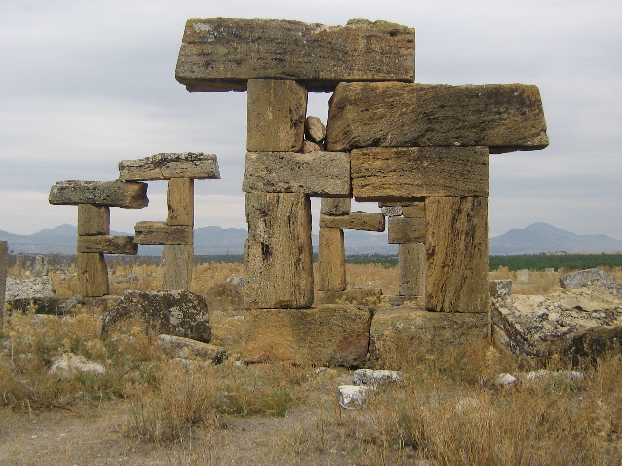 Antique remains in Blaundos (Turkey)